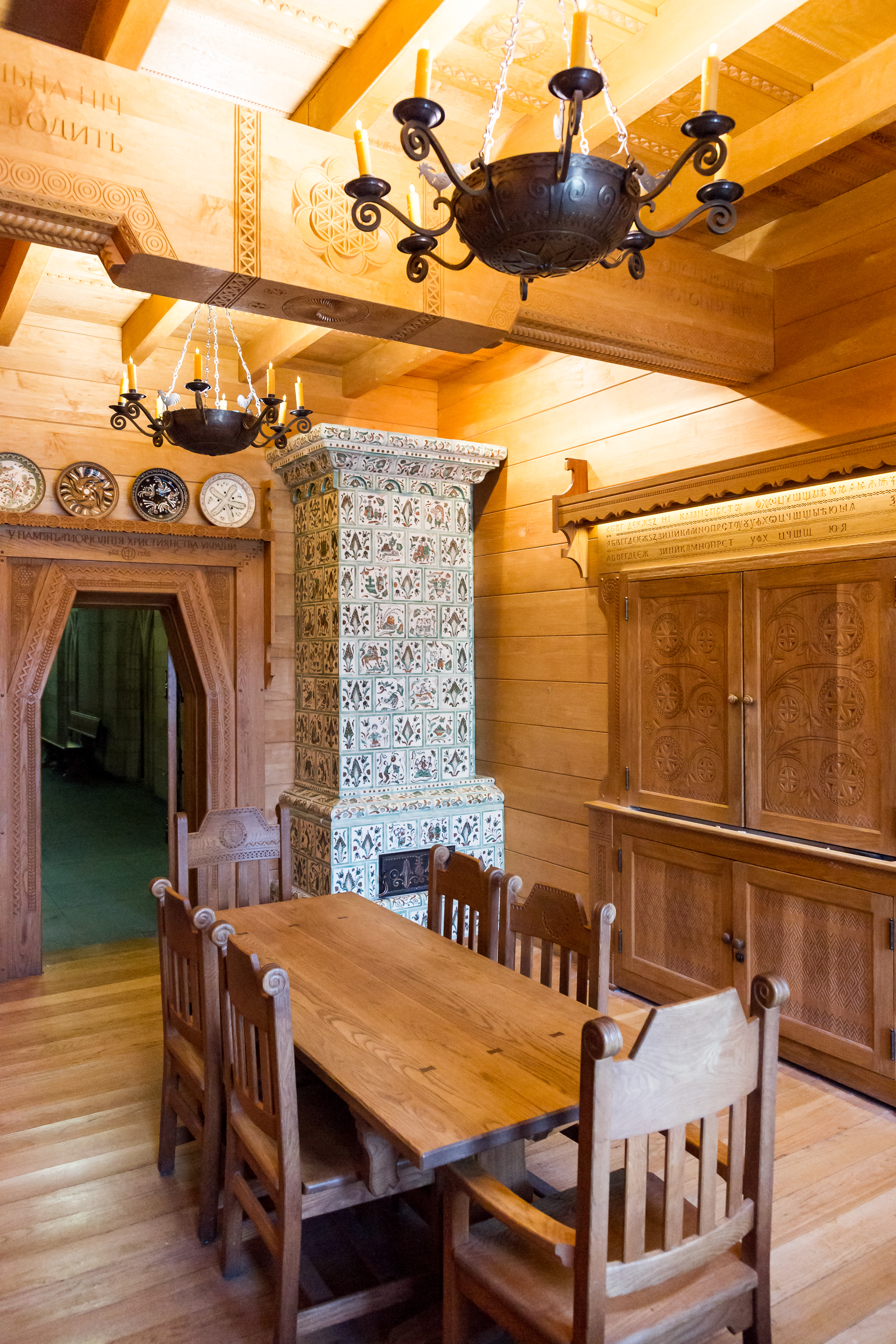 Ukrainian Nationality Room in the Cathedral of Learning at the University of Pittsburgh